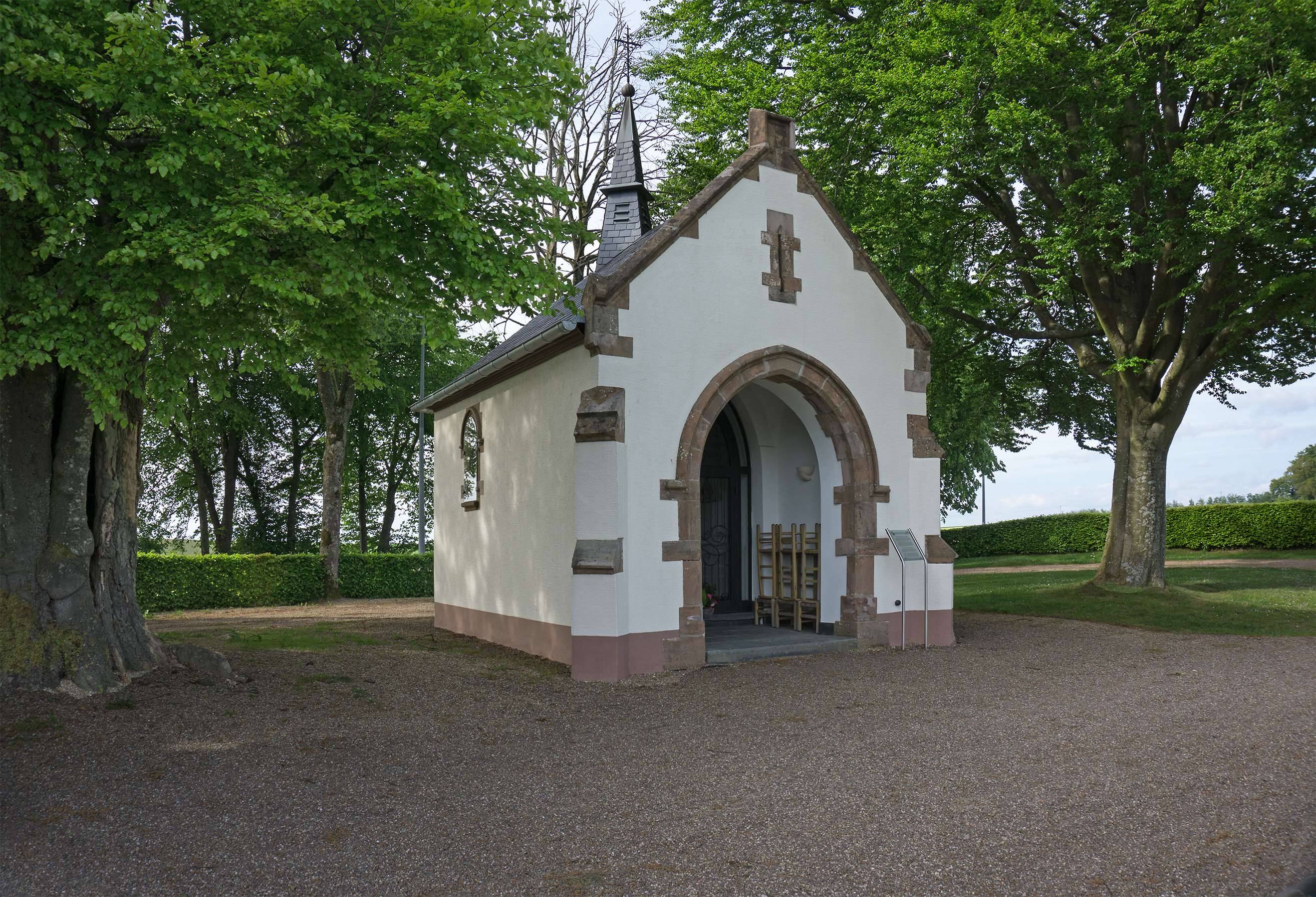 Chapel at the Wolwener Klaus